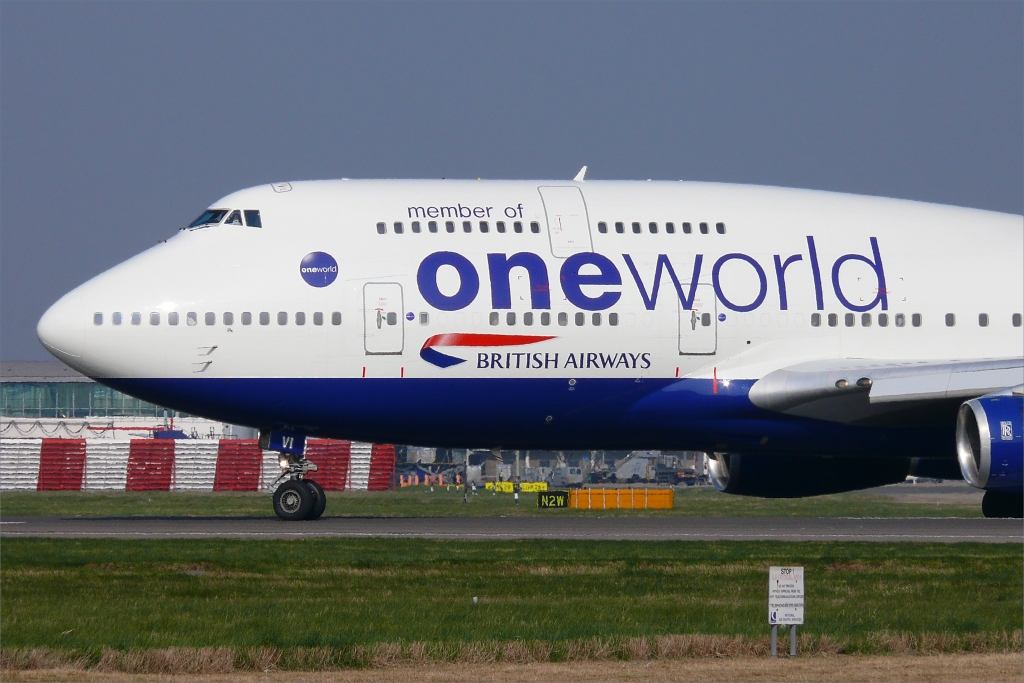 British Airways Boeing 747-400 G-CIVI with special Oneworld livery at London Heathrow Airport